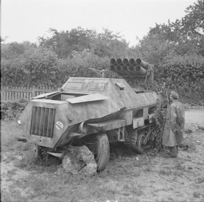 The British Army in Normandy 1944 A British soldier examines an abandoned German Opel Maultier self-propelled Nebelwerfer, in the Falaise-Argentan area, 22 August 1944.